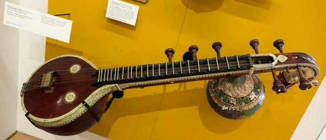 Saraswati veena in Phoenix Museum, AZ, in March 2014. Comment on flickR : We read about the Musical Instrument Museum (MIM) on Trip Advisor - it was the top rated attraction in Phoenix - and now we can see why! The museum is dedicated to musical instruments from around the world - the collection is fascinating, the exhibits are great and the hands-on displays were fun. We spent almost 5 hours here and still felt rushed - this place is definitely worth a detour. I know nothing about musical instruments so if you happen to know what a particular instrument is, please feel free to comment on it. I tried to include as many labels as possible. The museum is in Phoenix, AZ - we visited it in March 2014.